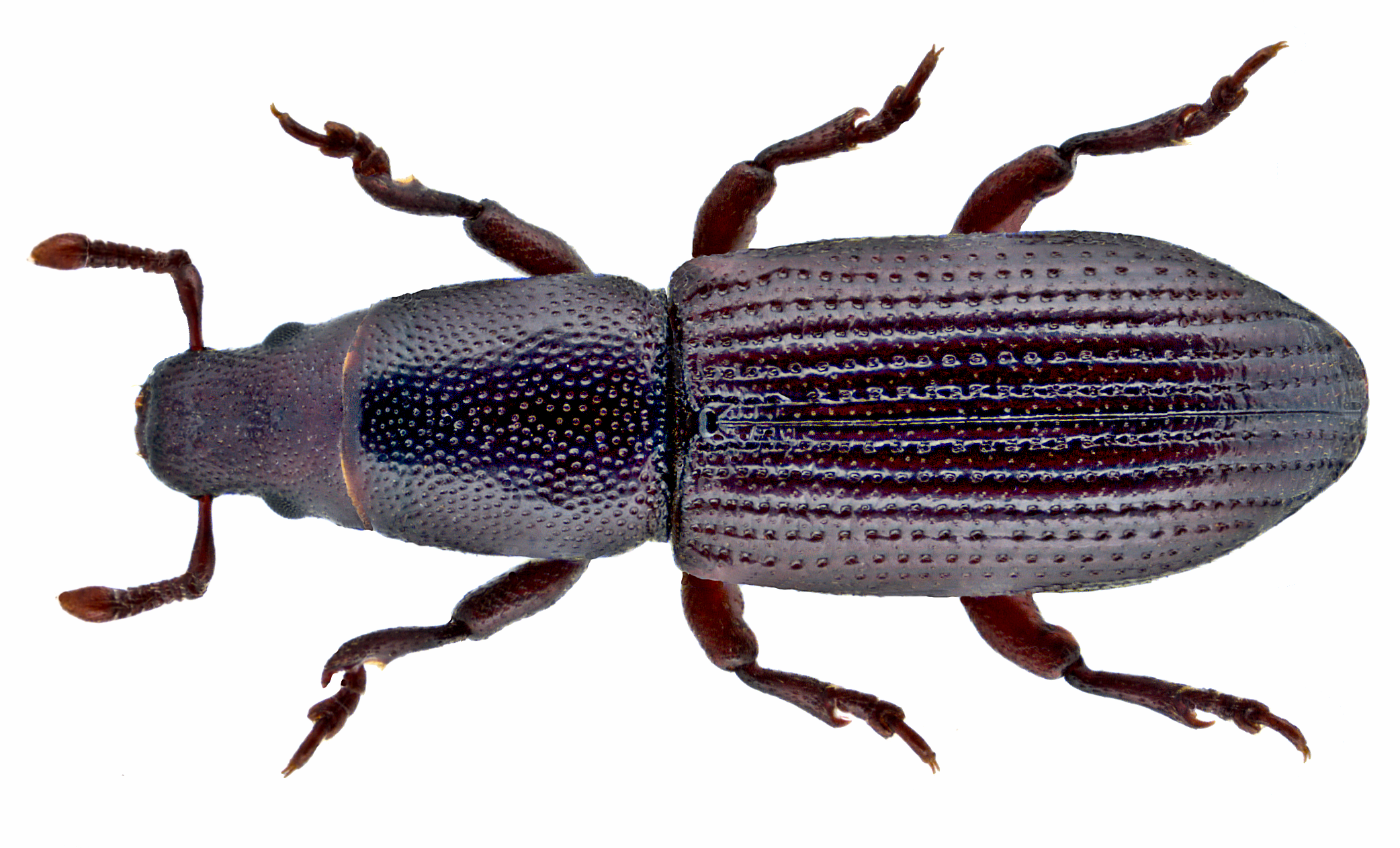 Family: Curculionidae Size: 3,9 mm (3,0 to 4,5 mm) Distribution: Europe Ecology: development in rotten wood Location: England, Aviemore leg.det. P.Harwood, VI.1922 Coll. Oxford University Museum of Natural History Photo: U.Schmidt, 2014